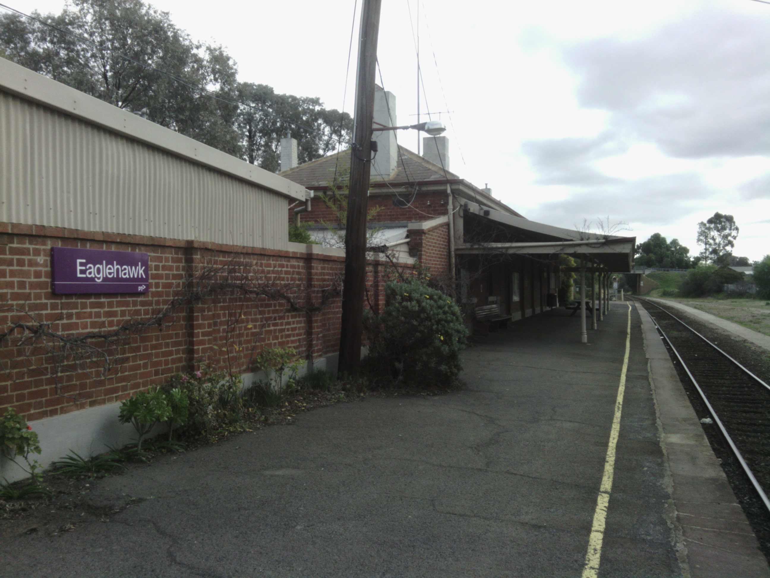 Eaglehawk Railway Station.